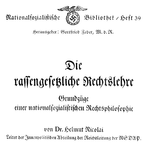 First page of: Helmut Nicolai, Die rassengesetzliche Rechtslehre. Grundzüge einer nationalsozialistischen Rechtsphilosophie [Nationalsozialistische Bibliothek hrsg. v. Gottfried Feder H. 39], Eher: München, 1932.